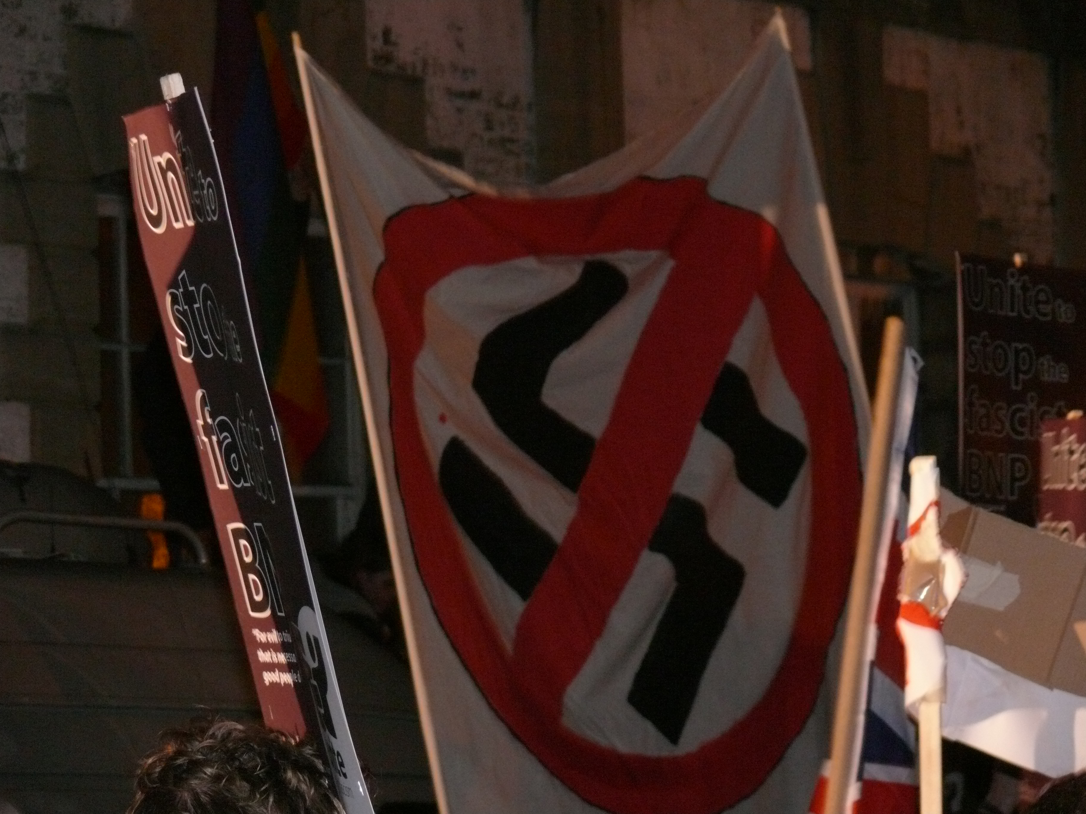 Protest, 26th November 2007, opposing the invitation of David Irving and Nick Griffin to address the Oxford Union.